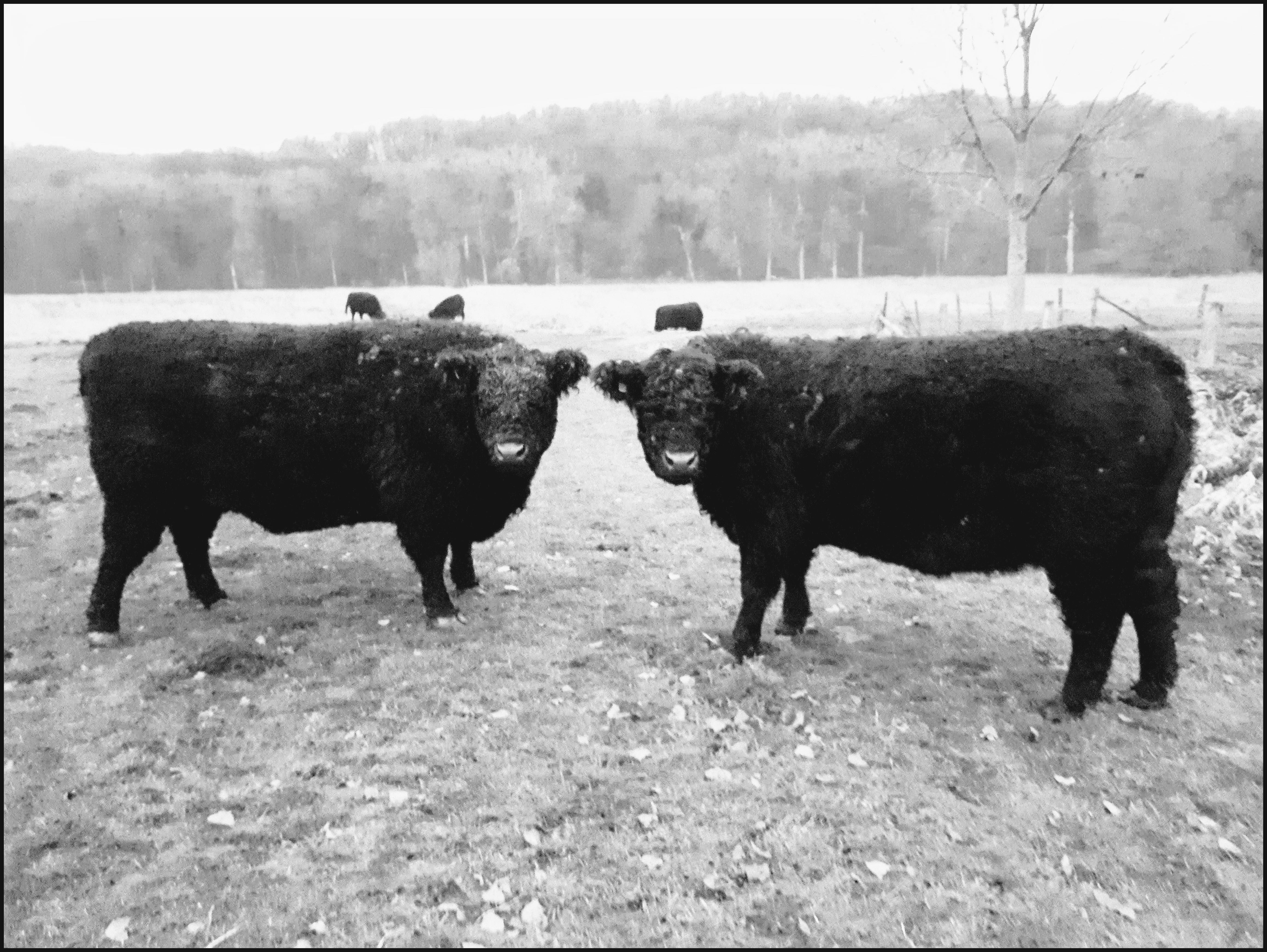 Cattle Breeds - Galloway